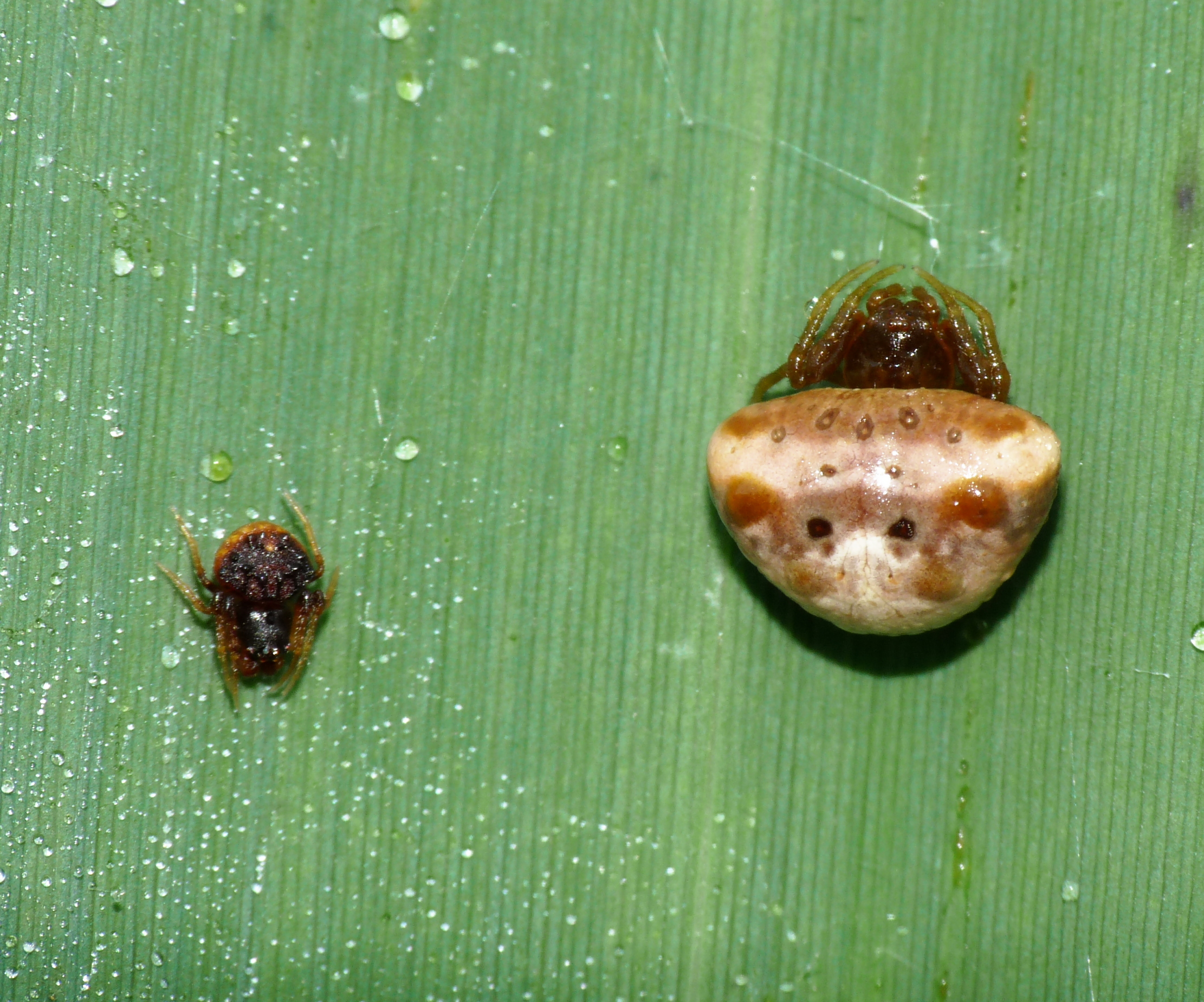 Cyrtarachne ixoides, male and female, near Livorno, Tuscany, Italy